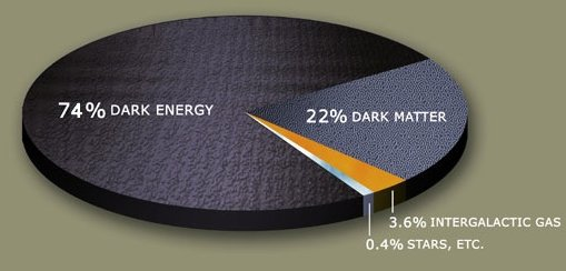 Retrieved from NASA online: [1] PeteSF 23:28, 22 February 2007 (UTC) Caption: Estimated distribution of dark matter making up 22% of the mass of the universe and dark energy making up 74%, with 'normal' matter making up only 0.4% of the mass of the universe.